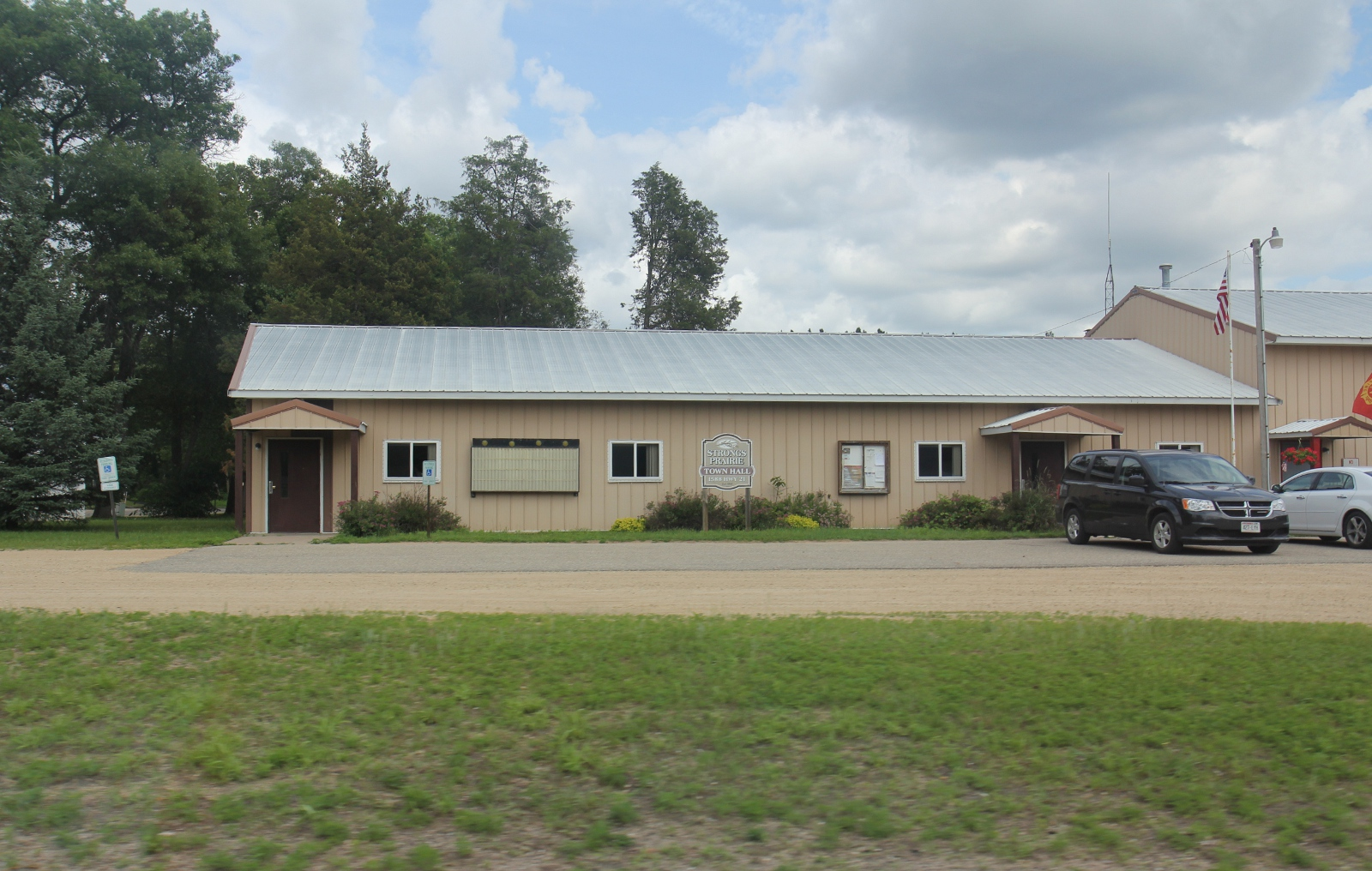 the town hall for Strongs Prairie, Wisconsin in Arkdale, Wisconsin.